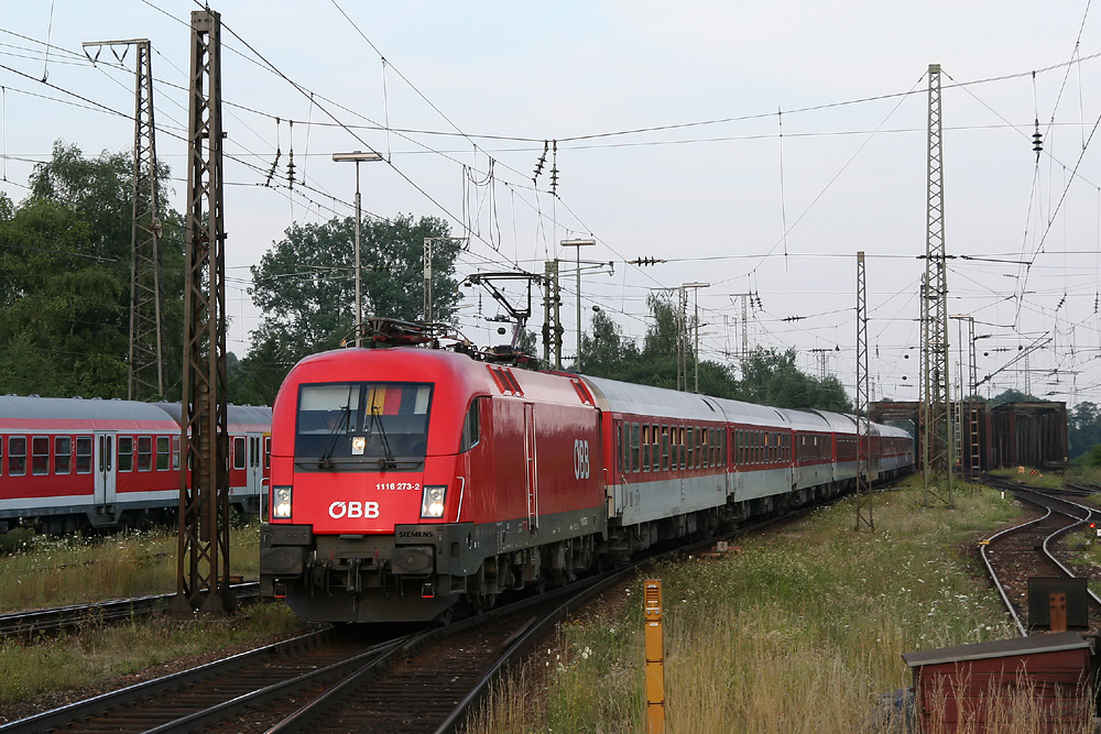 A night train (EuroNight 482 Munich–Copenhagen/Binz) passing through the station of Donauwörth, Germany